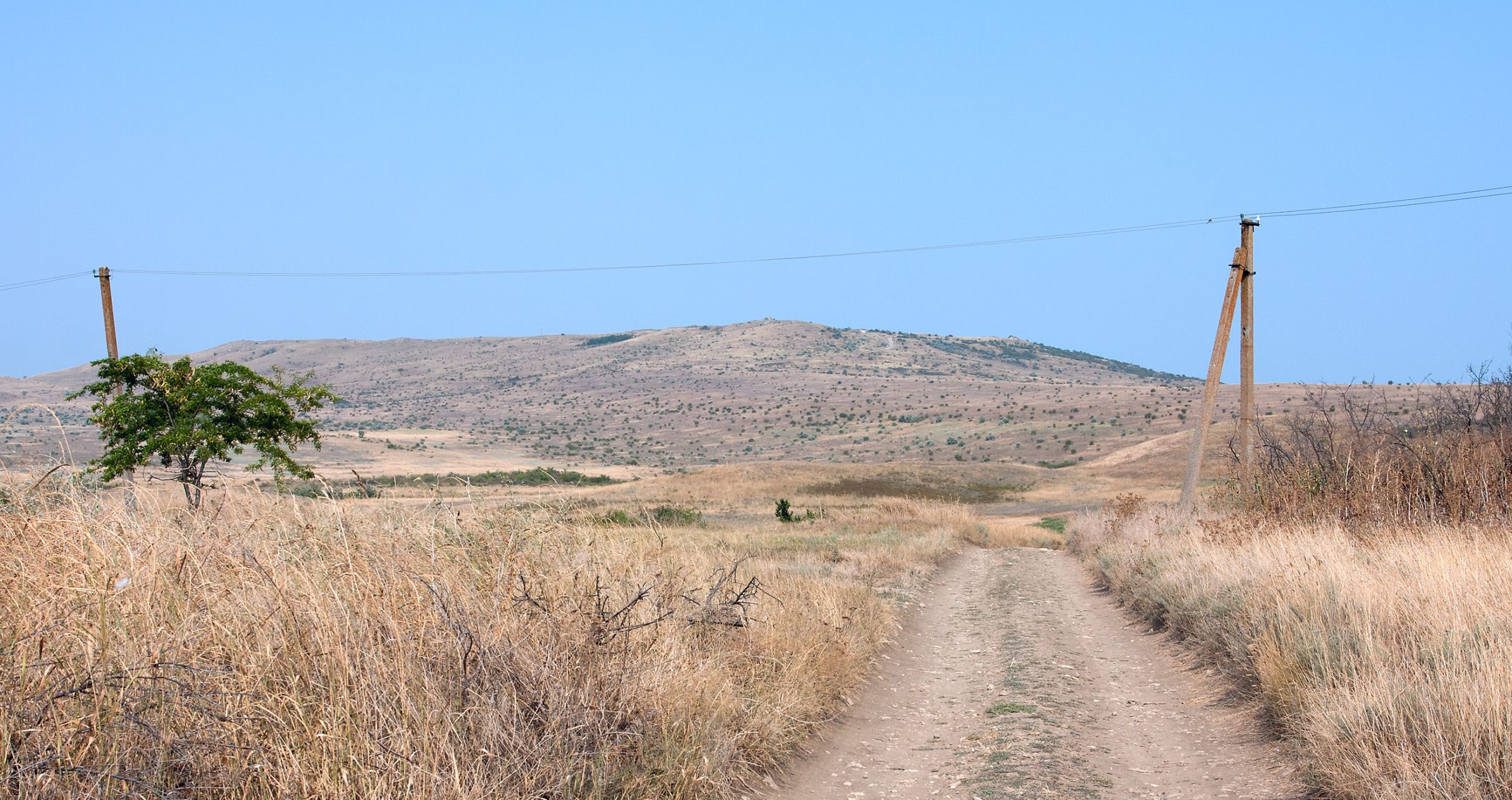 Mount Khroni near Kerch